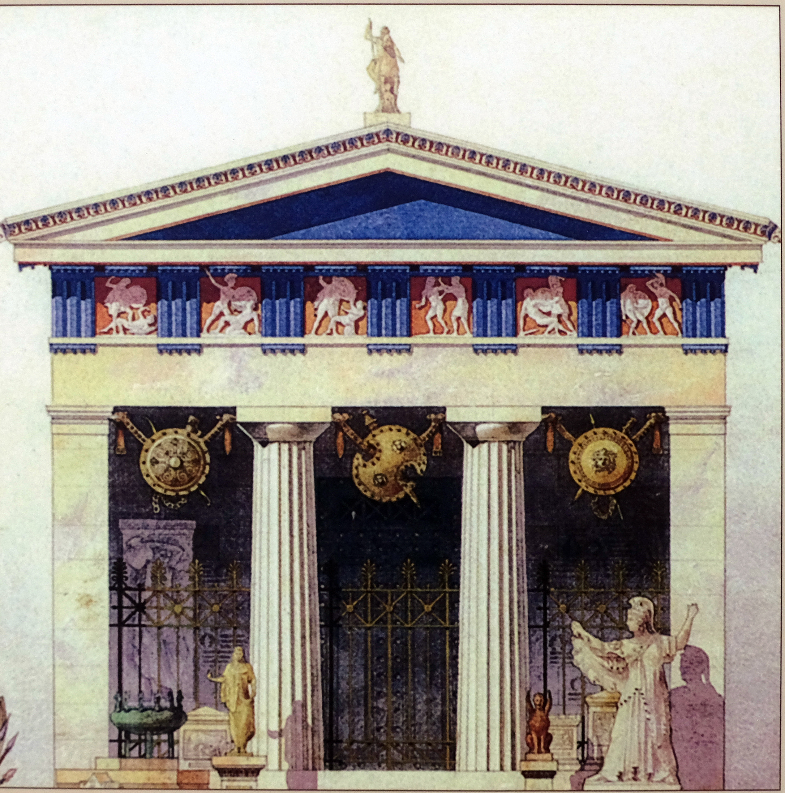 Reconstruction of the Treasury house of Athens in Delphi